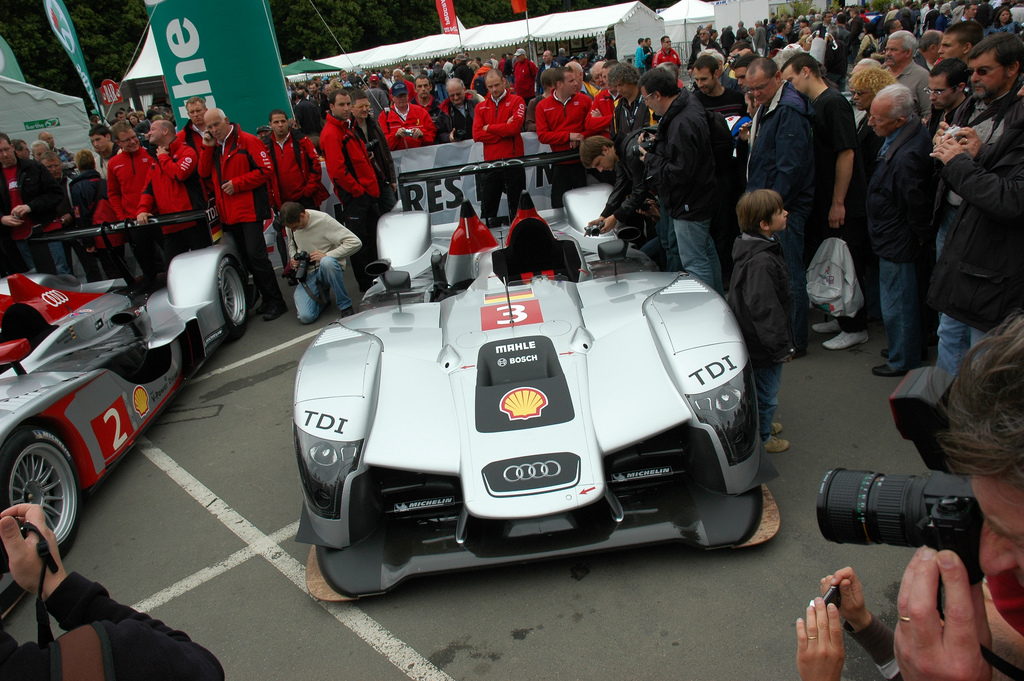 Audi Sport Team Joest's Audi R15 TDI at scrutineering for the 2009 24 Hours of Le Mans.